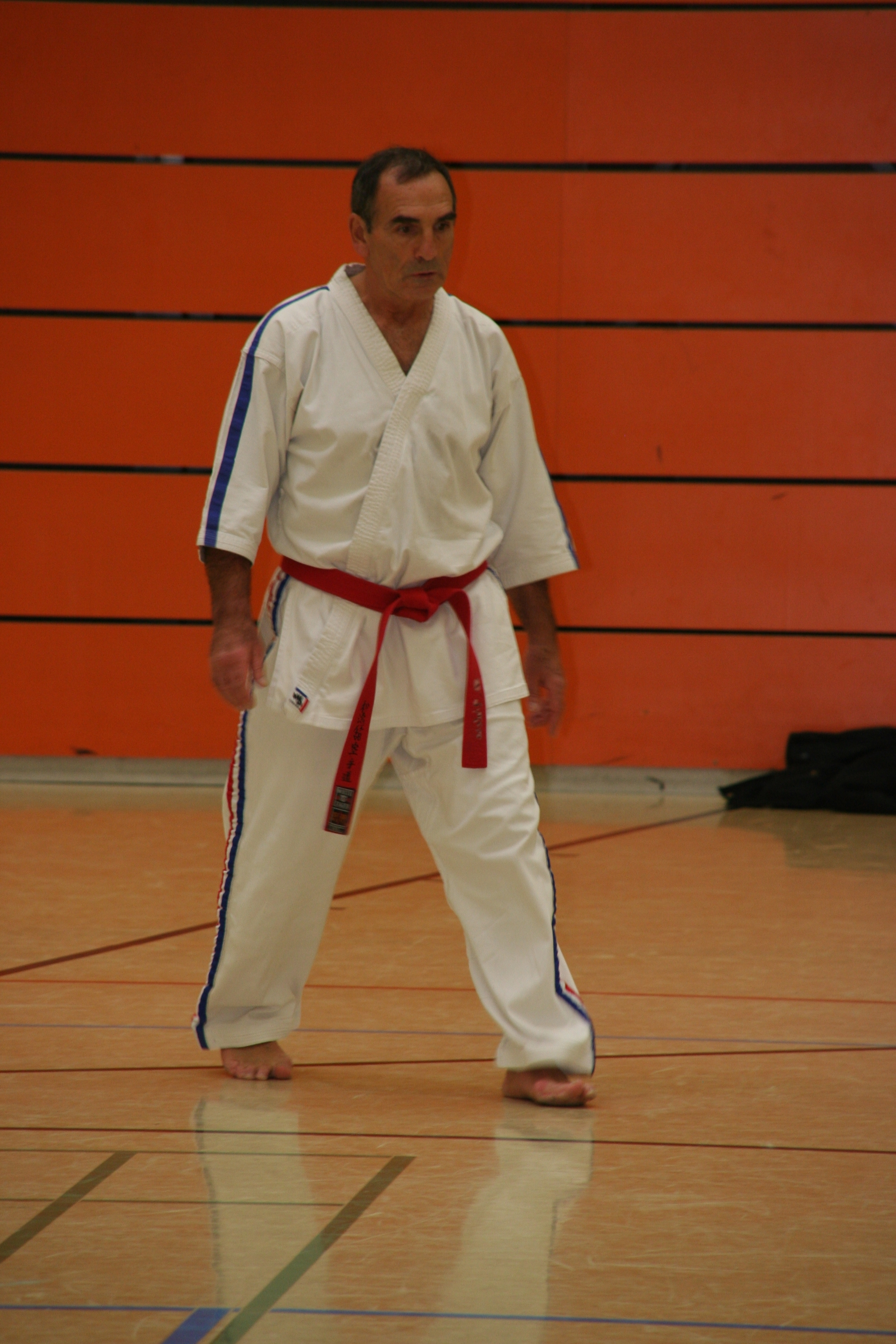 Shihan Dominique Valera, 9th Dan Karate, at a Karate seminar in Regensburg, Germany